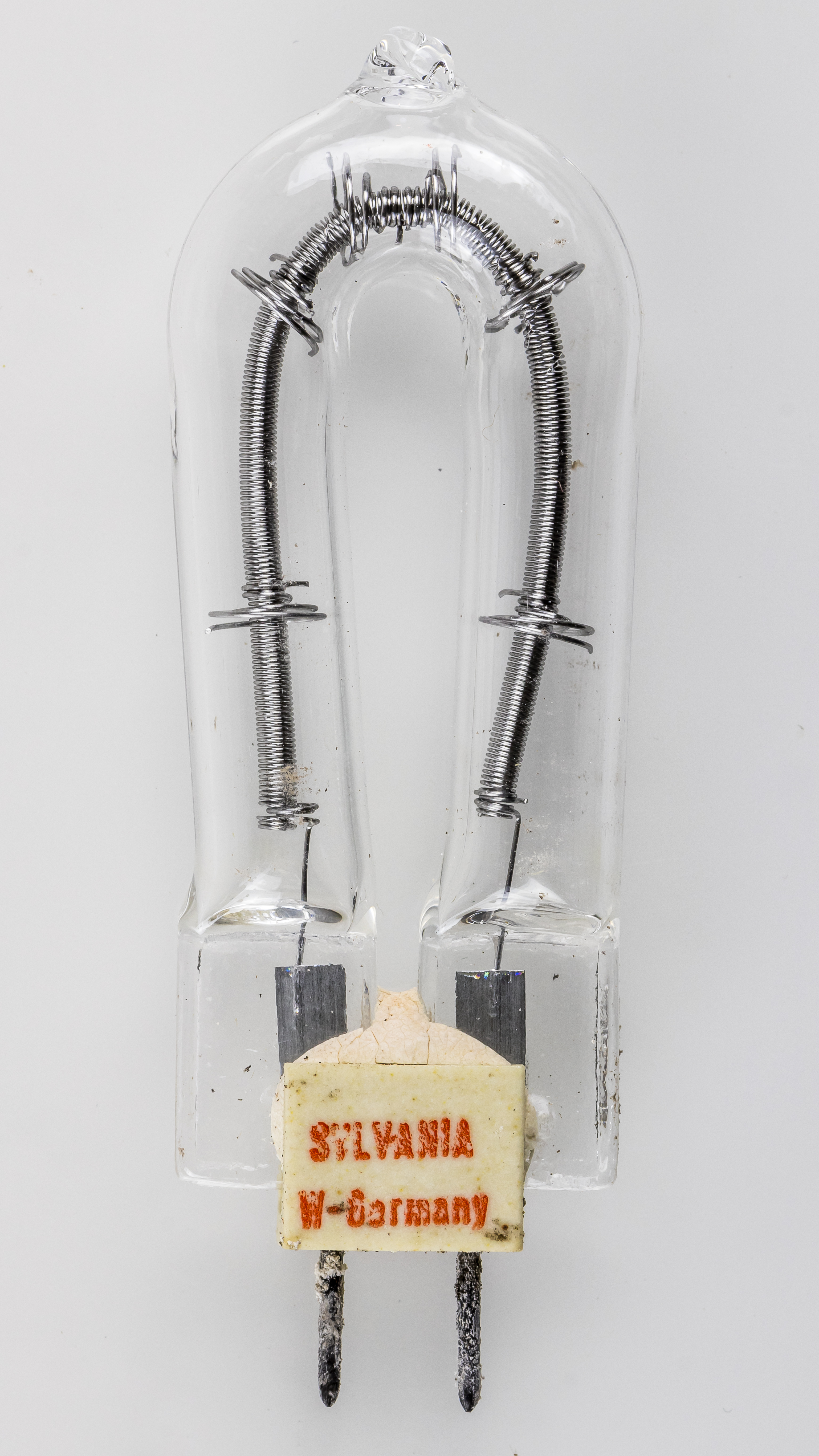 Sylvania FHB 35 225V 1000W. Socket Gx6.35